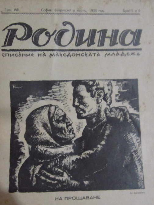 Rodina February and March 1934